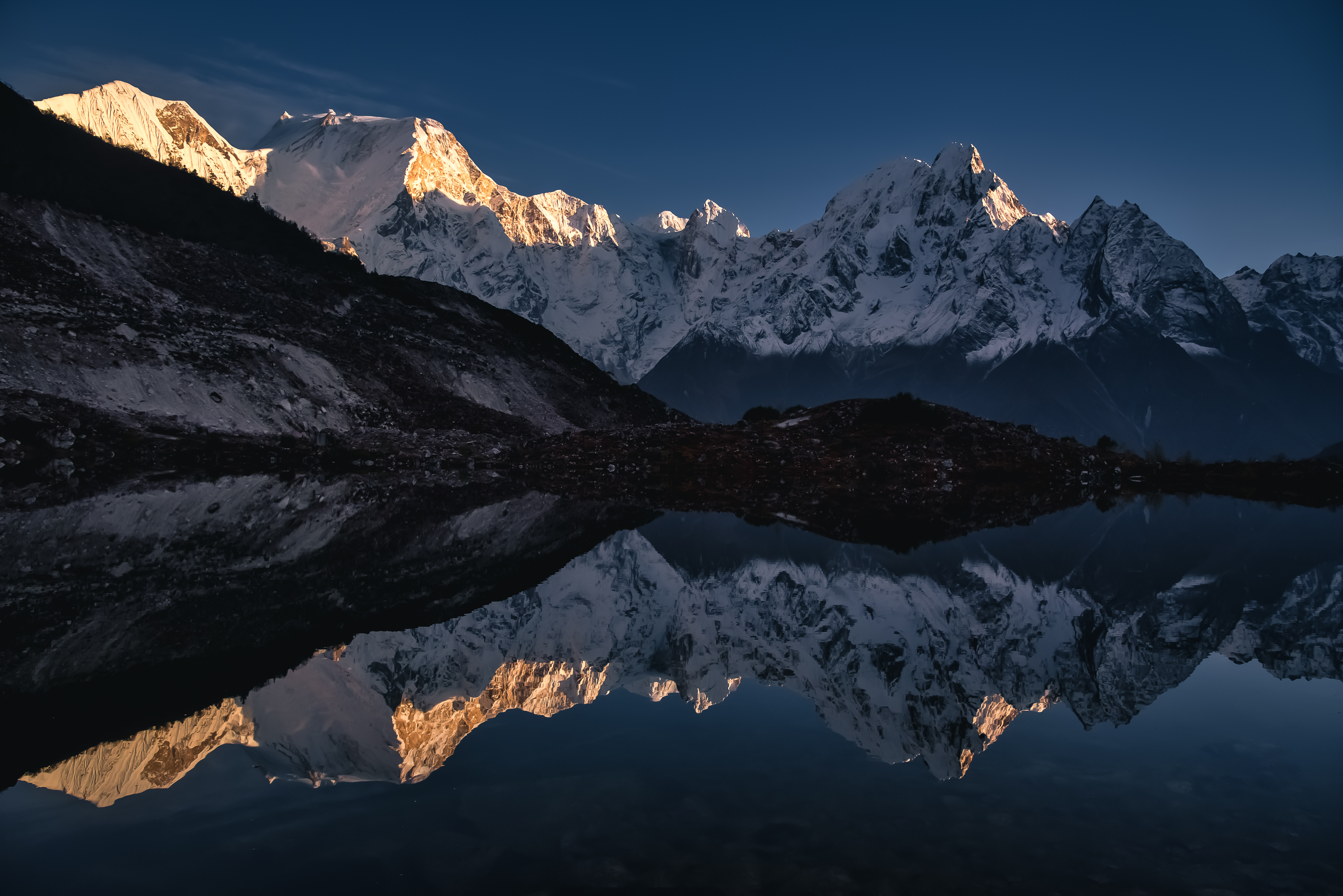 The beautiful reflection of manaslu range nearby the lake at bhimthang during evening time .